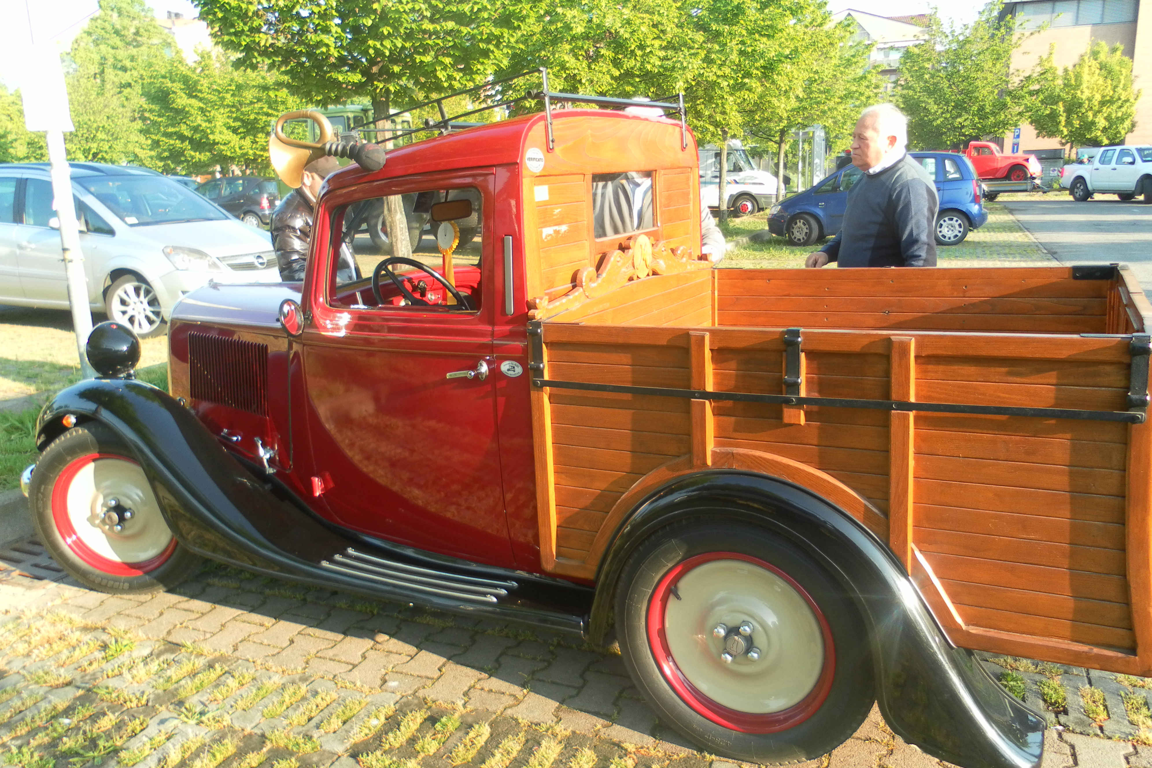 Fiat 508 Balilla